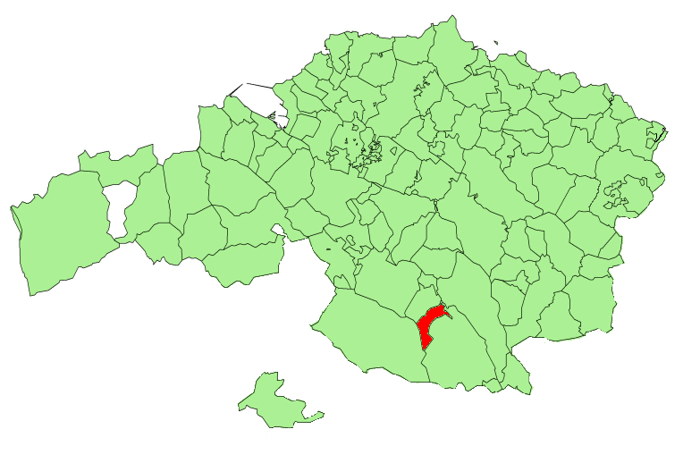 Areatza municipality in the province of Biscay